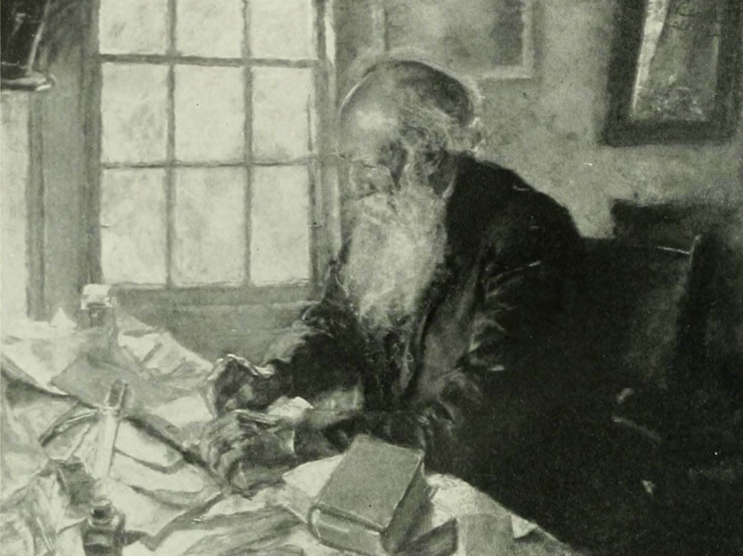 Portrait of John Burroughs by Otto W. Beck